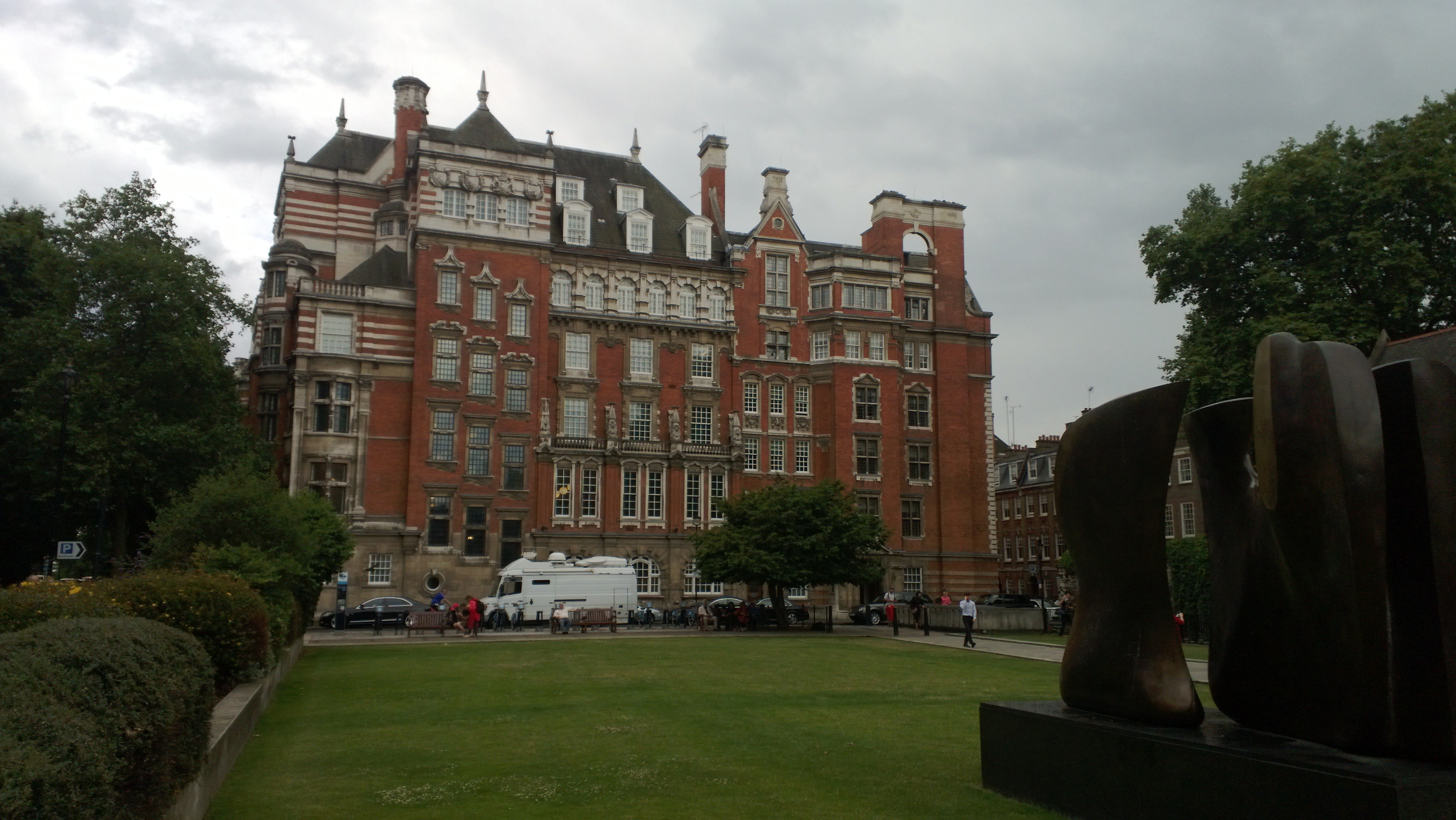 Built by Caroe as headquarters for the Church Commissioners and occupied by them until the early 21st century. Now parliamentary offices.